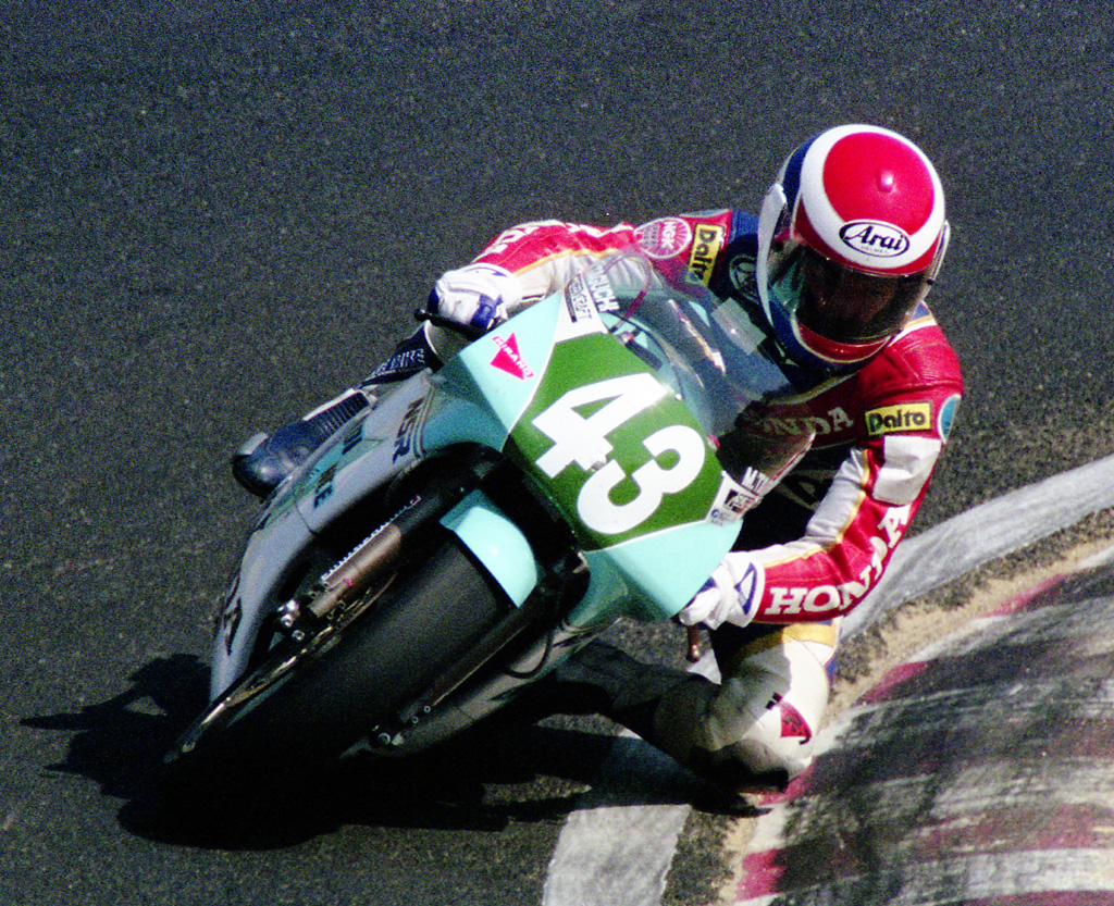 Masumitsu Taguchi, in Japanese Grand Prix 1990